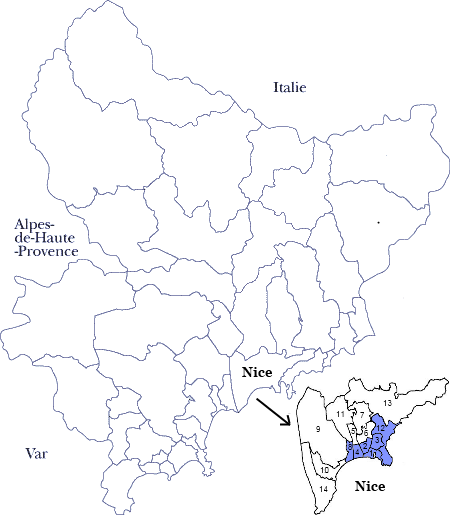 Map of Alpes Maritimes' 1st constituency, France (2010 redistricting, into force from 2012 French legislative elections).